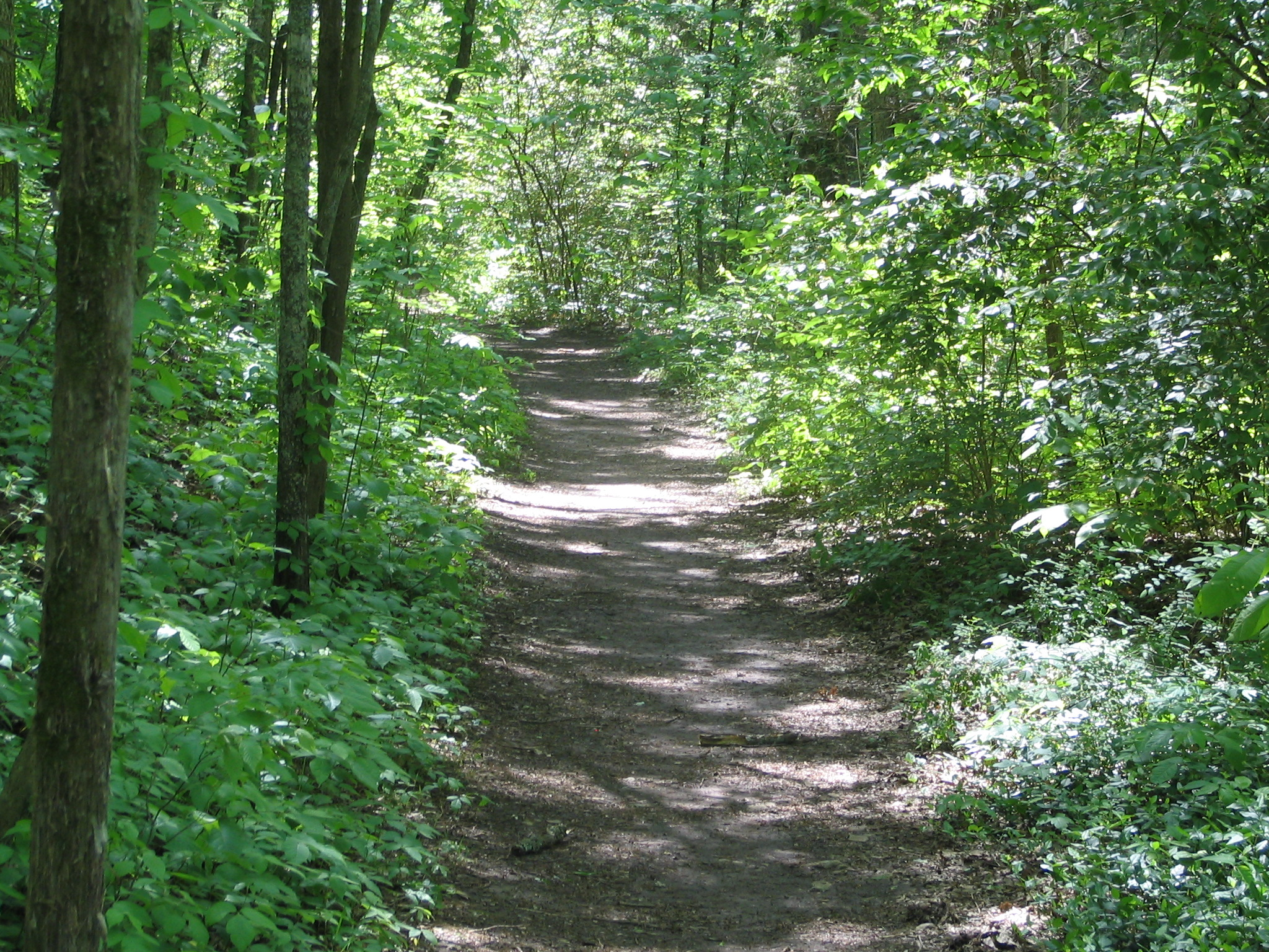 A few segments remain. The Natchez Trace was the method of travel for some, connecting Nashville, Tn to Natchez, MS. Officially established by Congress in the year 1800 as a national route, Andrew Jackson and many of his troops marched or rode (cavalry) through here and back during the Creek War and the War of 1812. This segment is still available for visit in Nashville at Warner Park. All of the trail through the park is still available for walking, although this specific segment is not on a trail map and is less traveled. It ends at a closed-for-decades street at the 200-year-old Devon Farm.